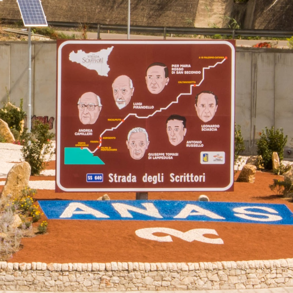 Tourist road sign within San Pietro roundabout (near Agrigento, Siciliy) along the SS 640 "Strada degli Scrittori" italian national road.